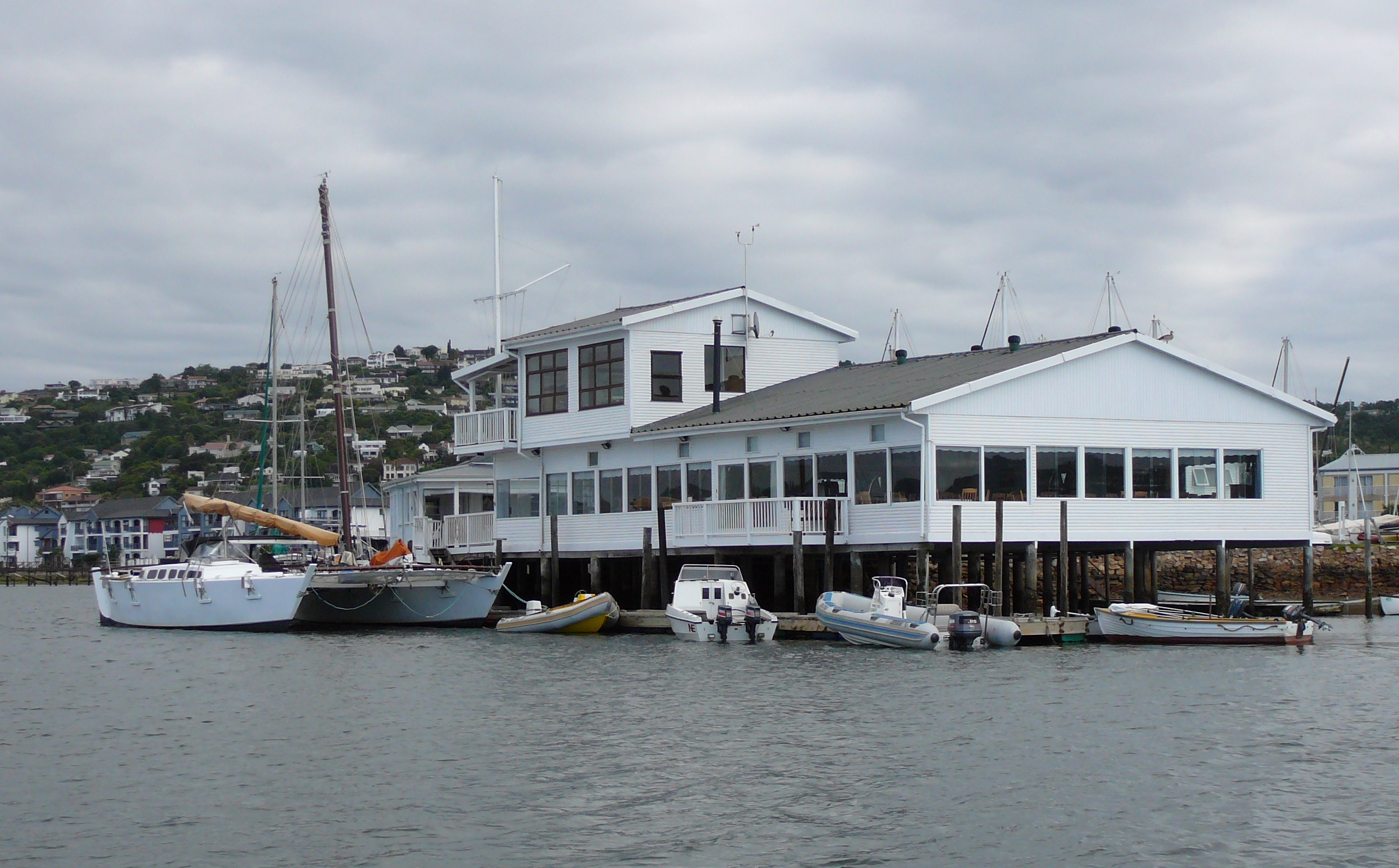 Wakataitea at the Knysna Yacht Club